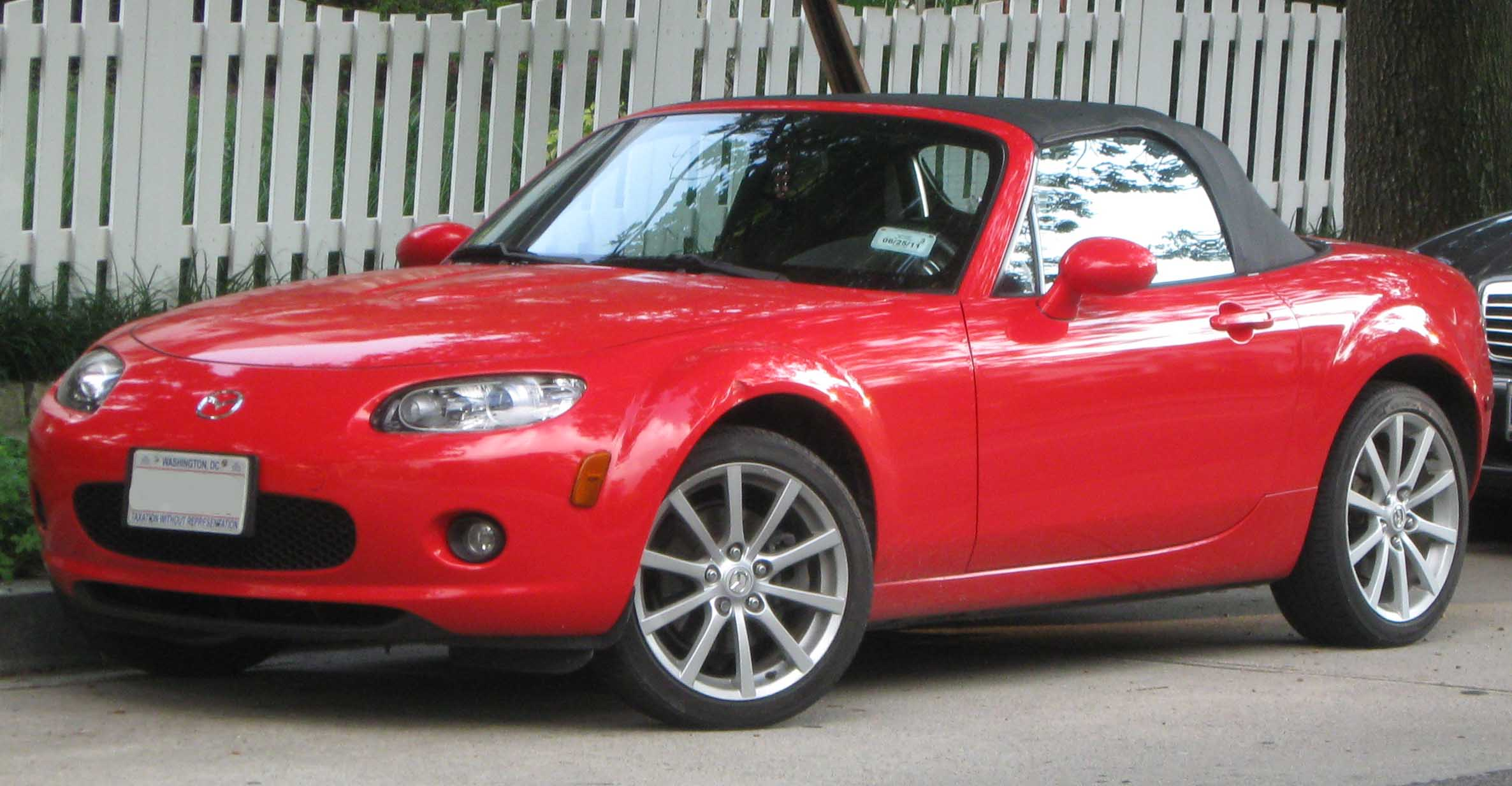 2006-2008 Mazda MX-5 photographed in Washington, D.C., USA.